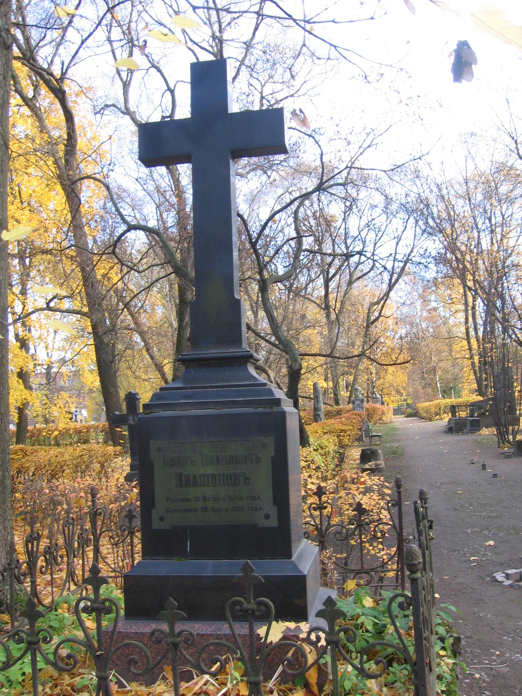 Grave of Ivan Ivanyukov